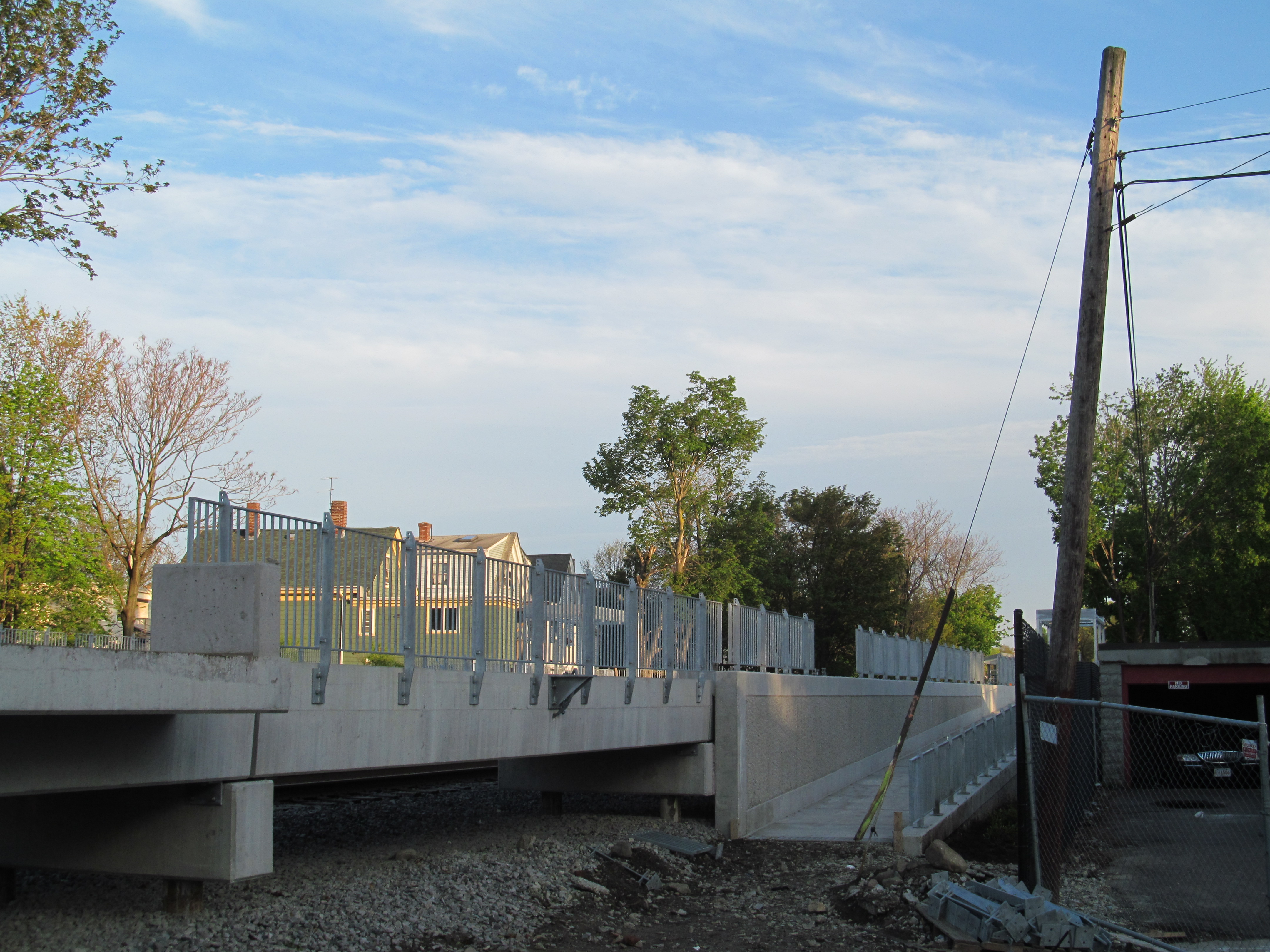 Construction of the outbound platform at Talbot Avenue viewed from the corner of Standish Street and West Park Street